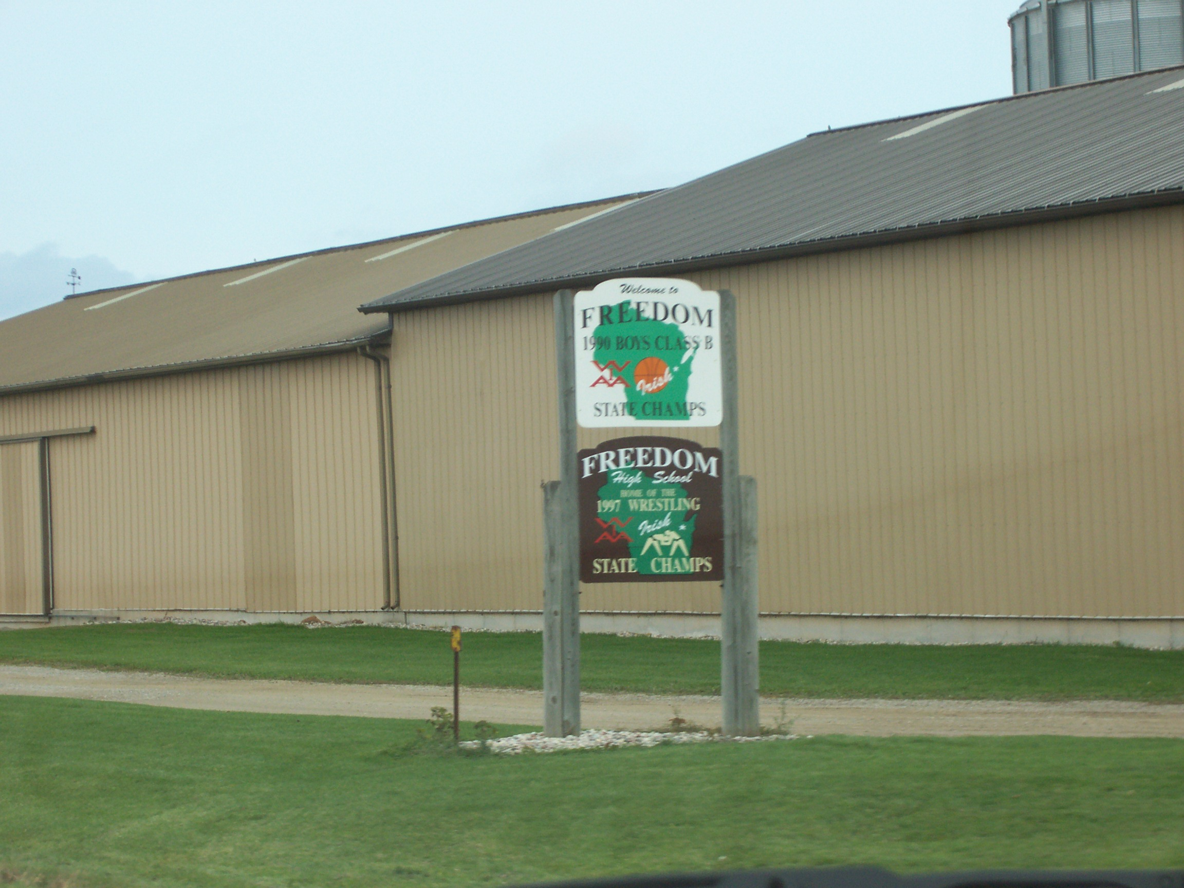 The welcome sign for Freedom, Wisconsin, USA. Taken October 20 2006 by myself.